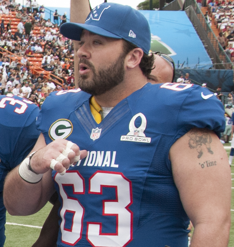 Pro Bowl XLVII 2013 kick off with the military color guard and later continued with the NFL Salute to Service, January 27, 2013.